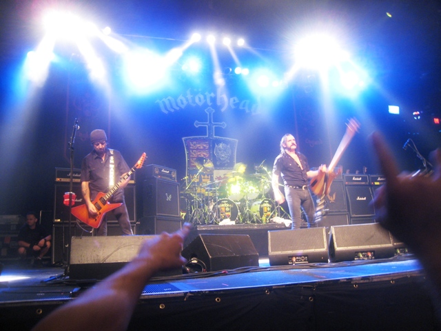 Motorhead Playing The Electric Factory In Philadelphia